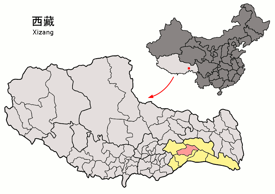 Location of Nyingchi County (pink) and Nyingchi Prefecture (yellow) within Tibet (Xizang) autonomous region of China